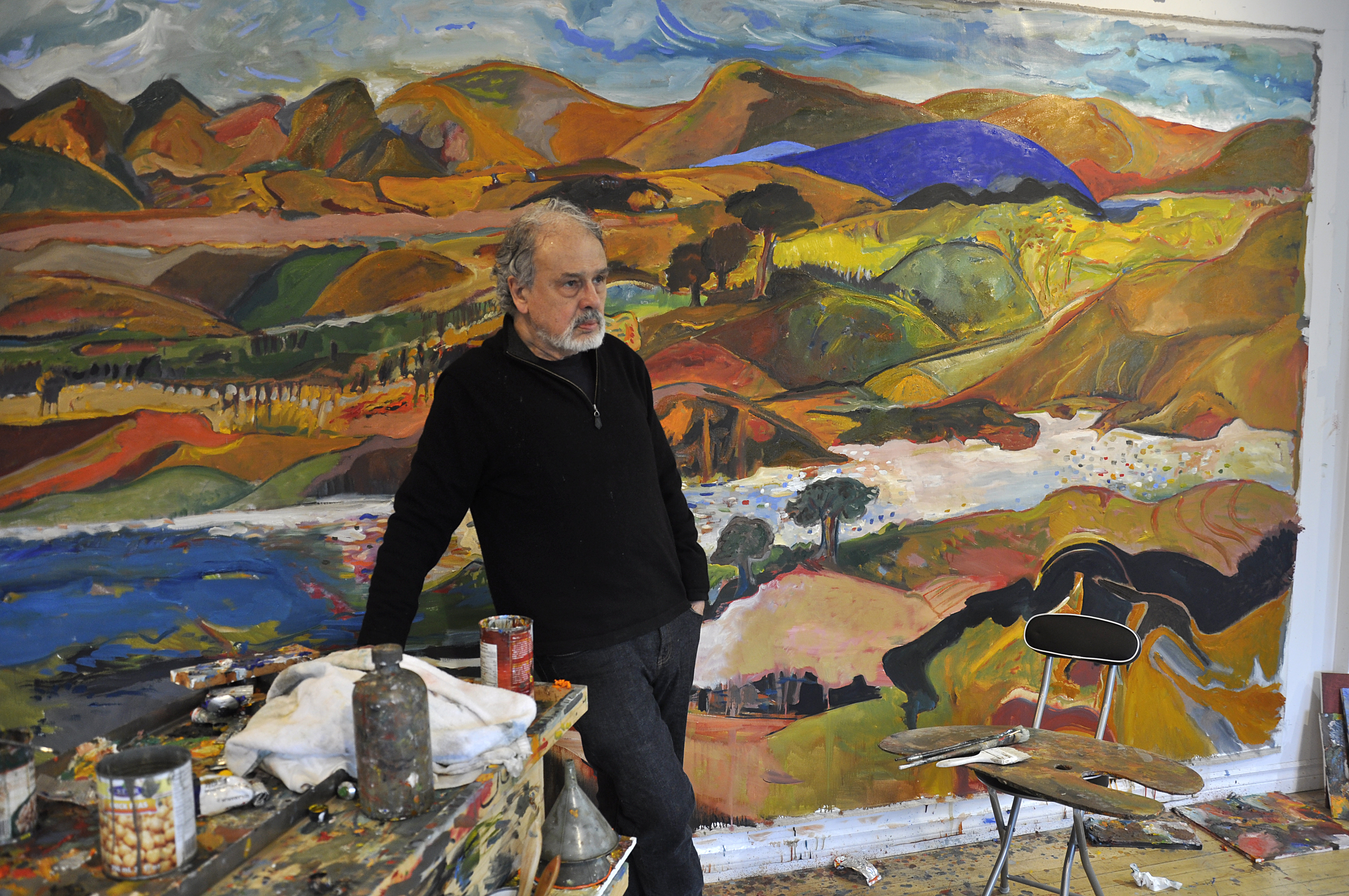 A portrait of Chaki posing in front of his oil on canvas landscape from 2016.